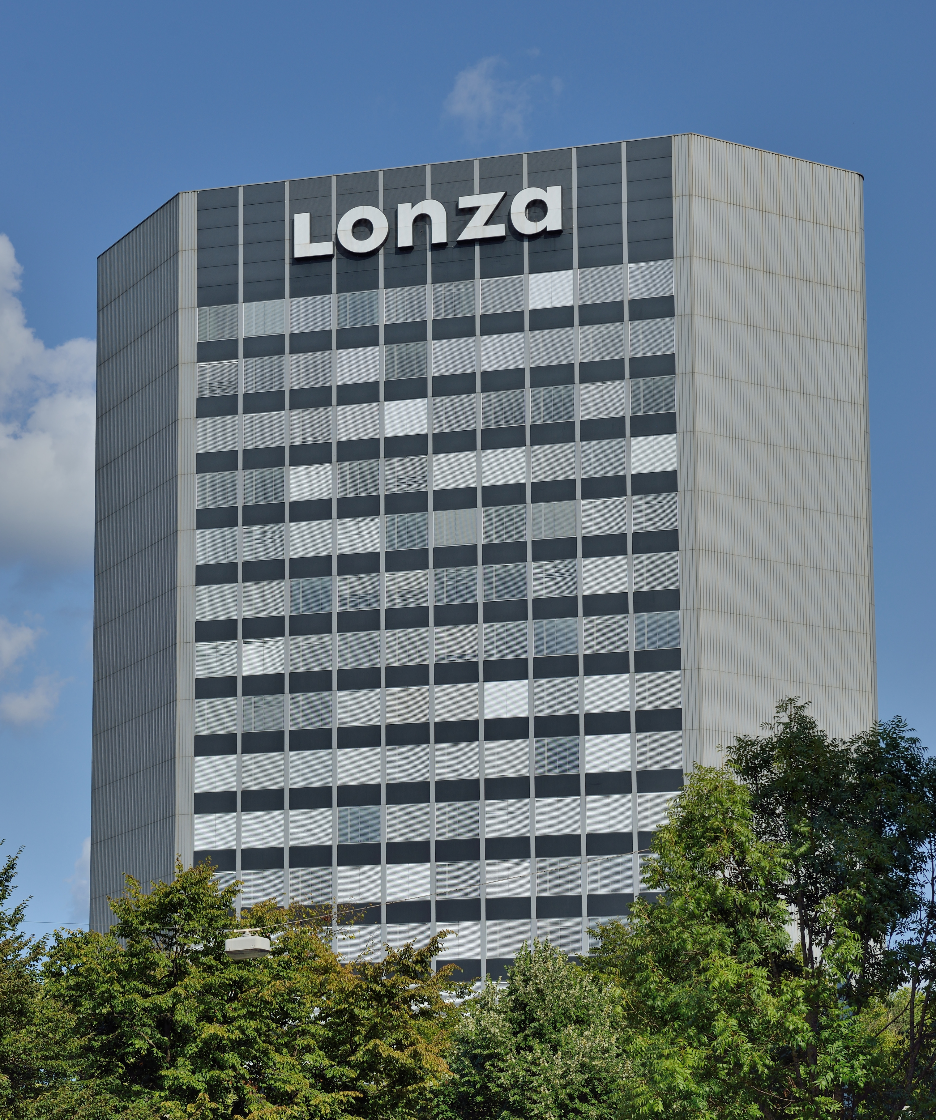 Basel: Lonza building